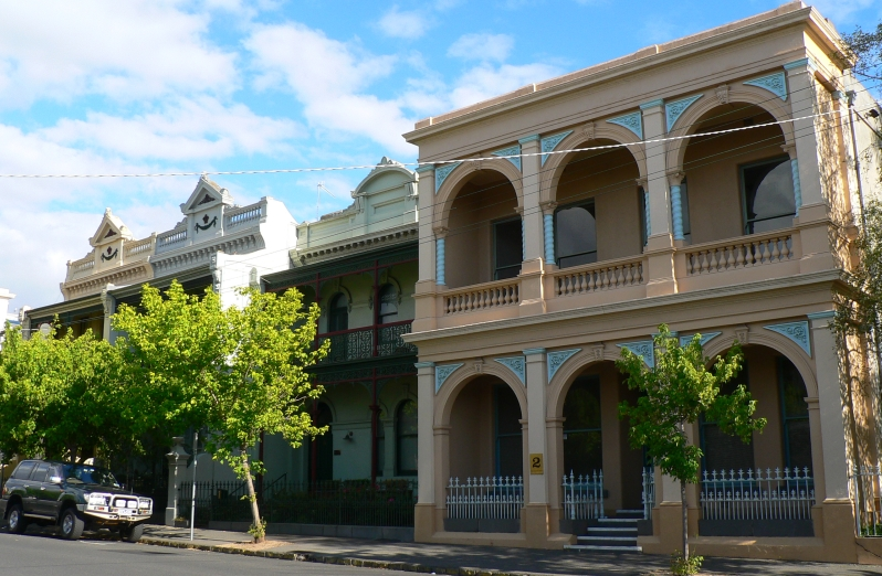 Terrace housing on Erin Street. Richmond, Victoria.